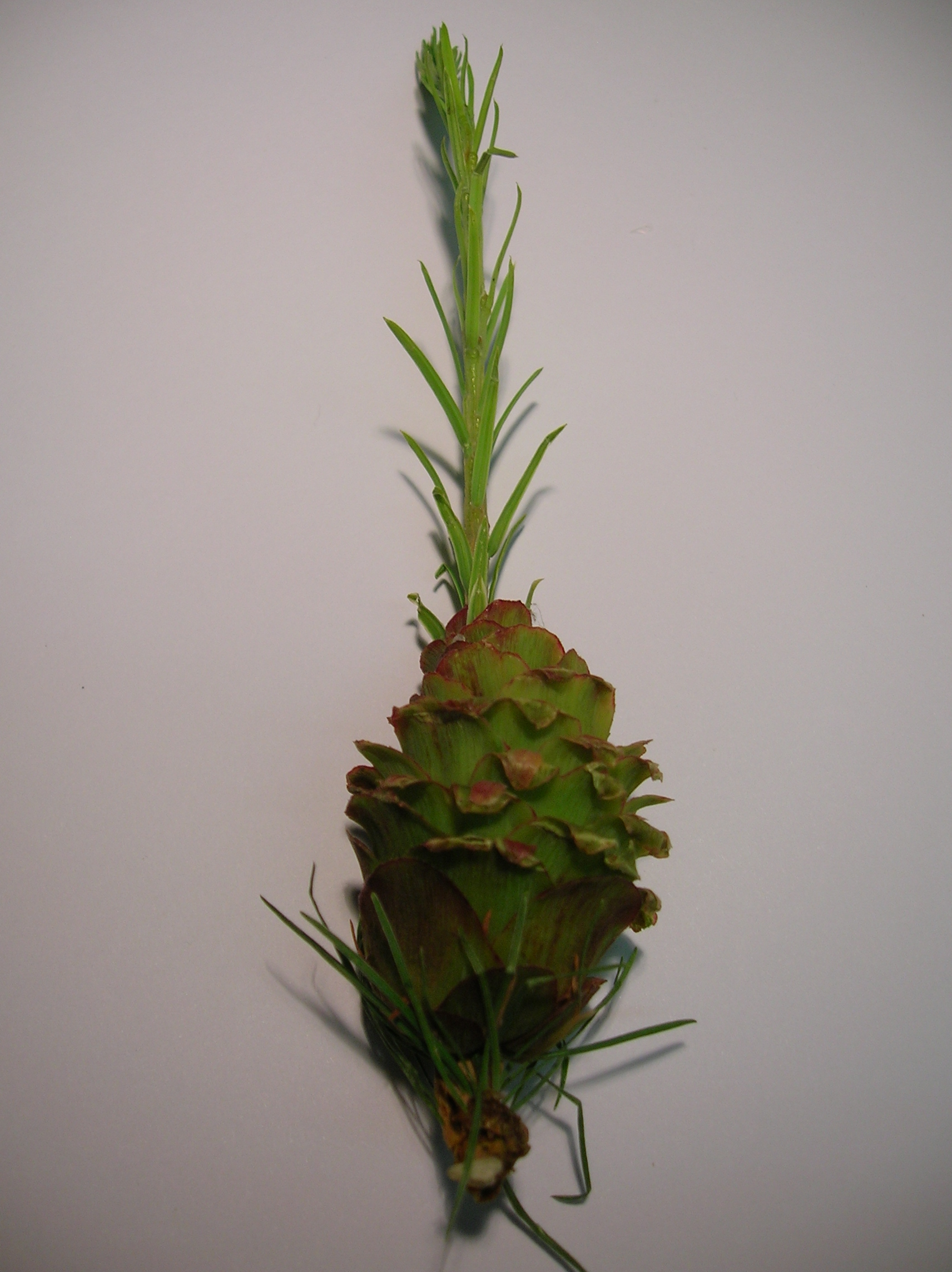 A female Dunkeld Larch cone with a small branch growing from the tip. Eglinton, Irvine, North Ayrshire, Scotland.